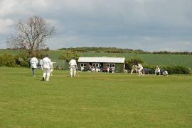 A photograph of a cricket match at Wold Newton, East Riding of Yorkshire, England.